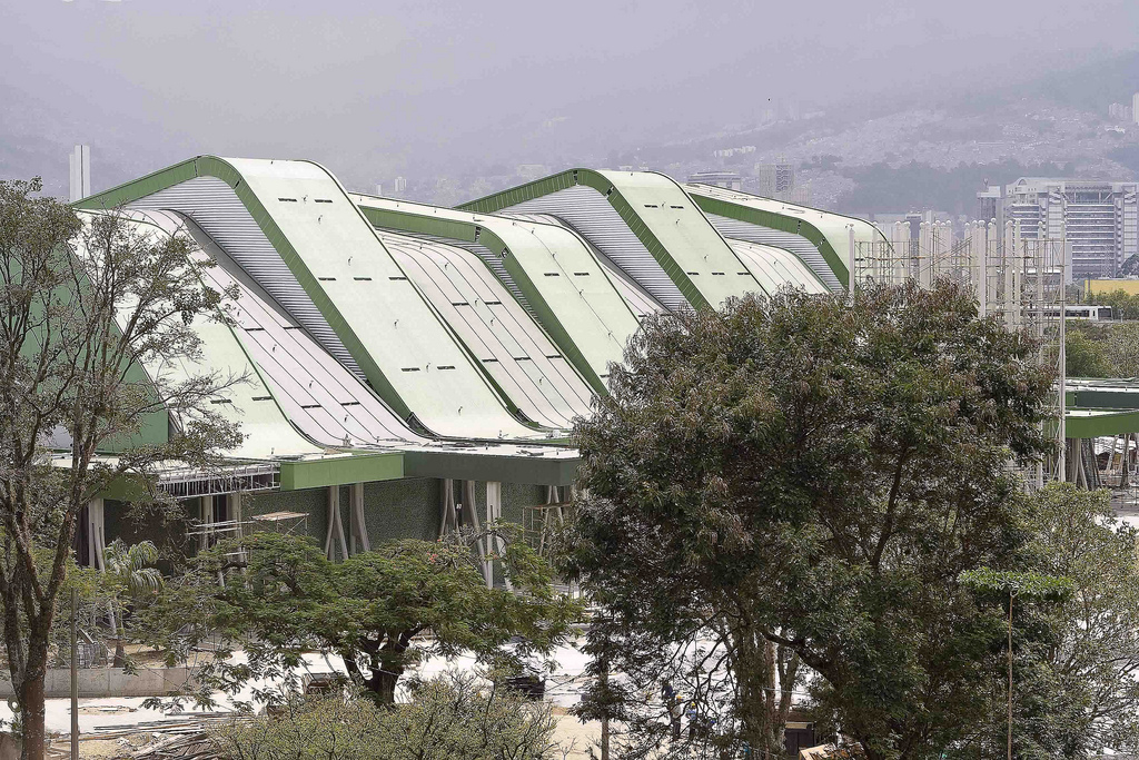 Sport hall for the 2010 South American Games, Medellín